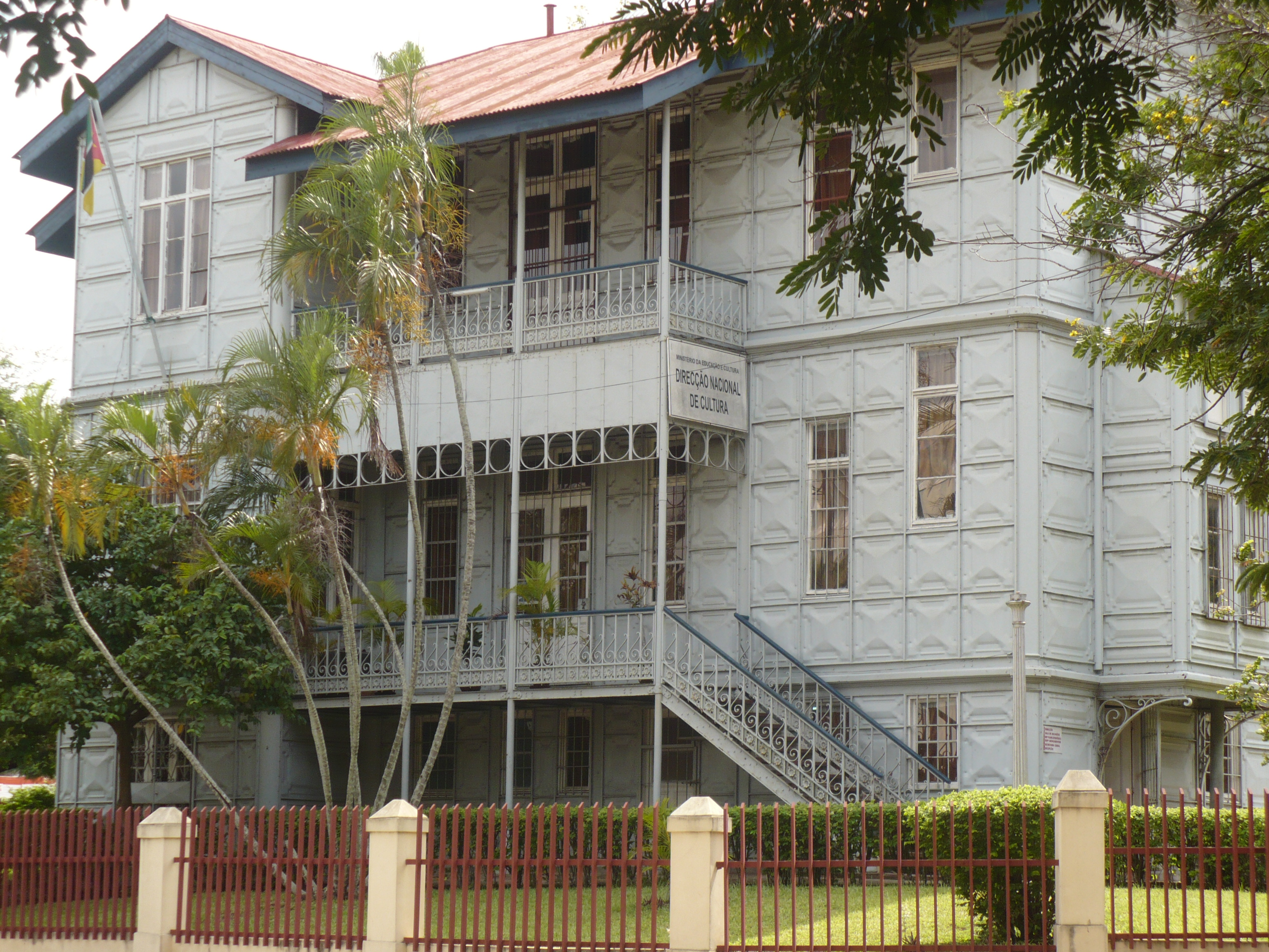 The "Iron House" (Casa de Ferro) in Maputo, Mozambique